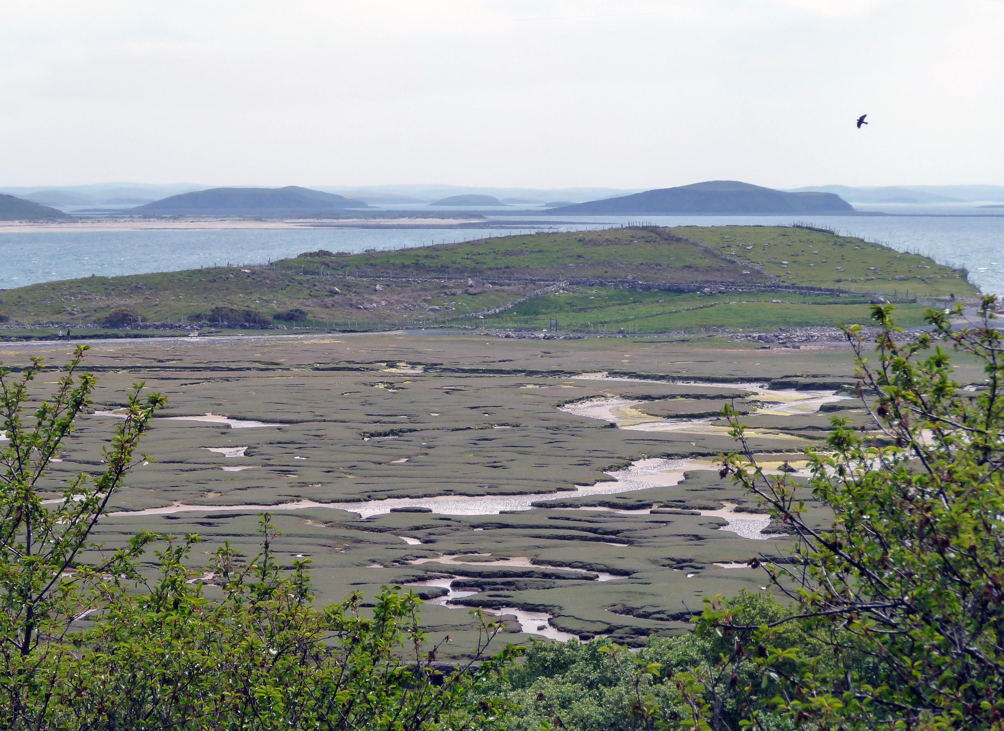 Mulrany to Clew Bay